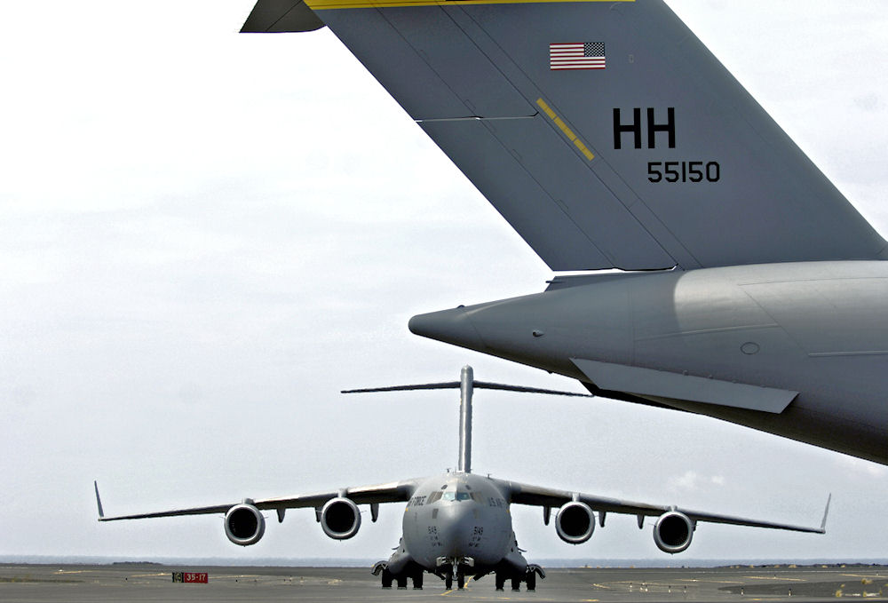 15th Operations Group C-17 Globemasters